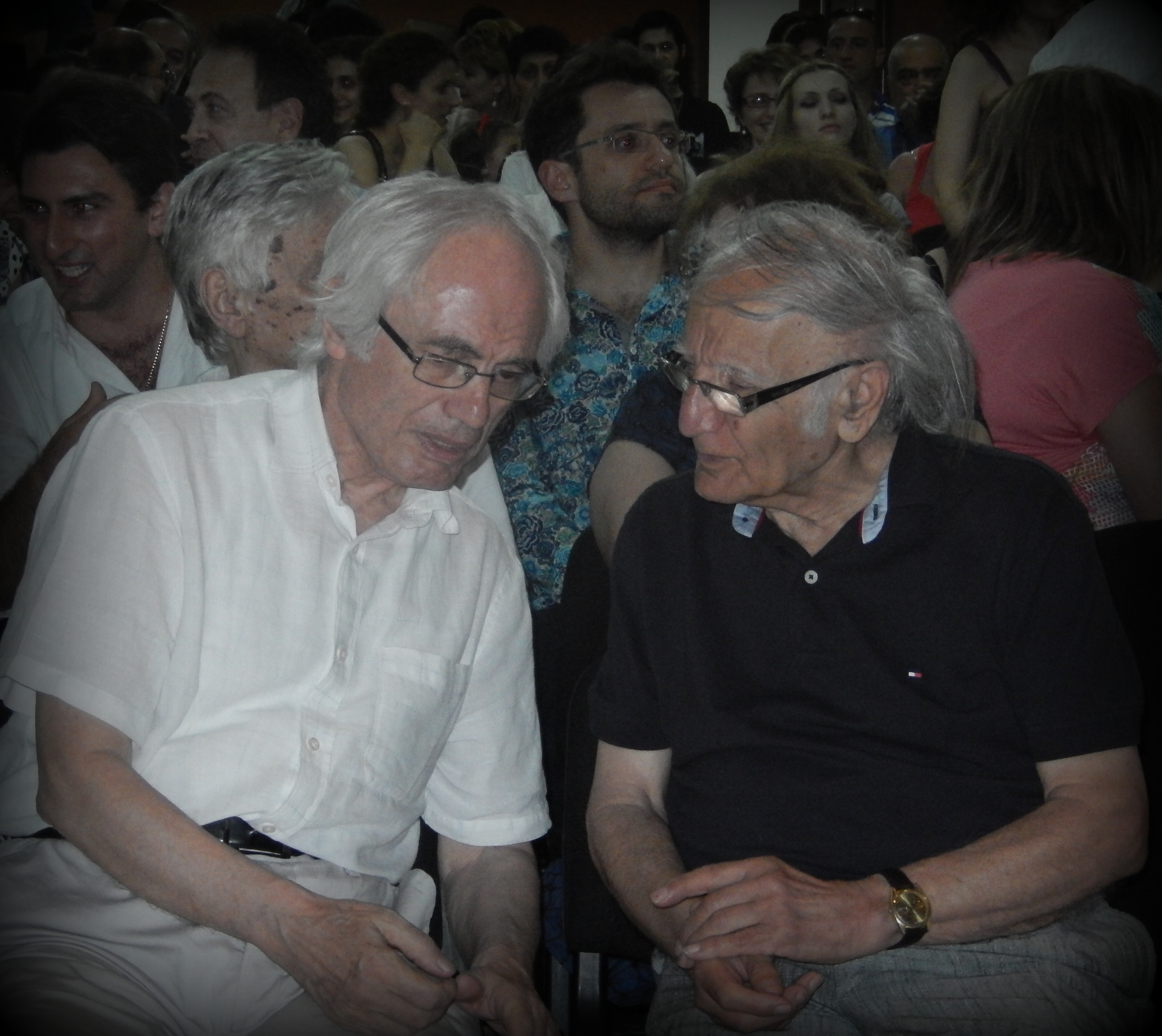 Arto CHkmakchyan & Tigran Mansuryan